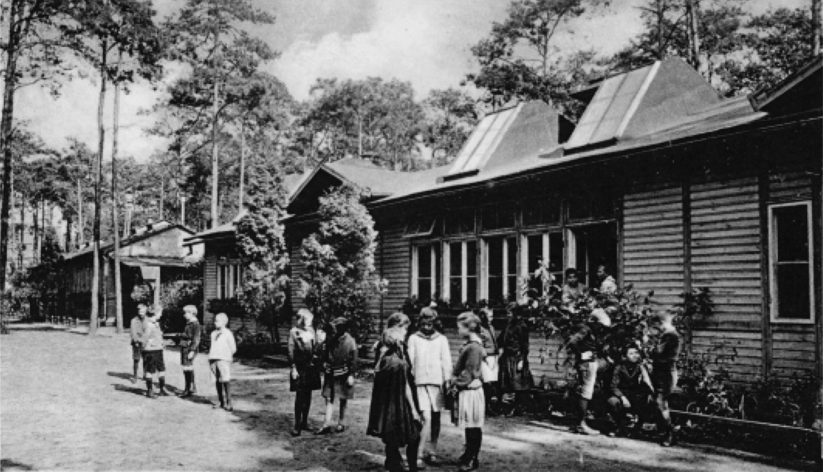 The picture shows two school buildings of Waldschule für kränkliche Kinder (translated: Forest school for sickly children) in the borrough of Westend, in the city of Charlottenburg, near Berlin, Germany. The very first open-air school worldwide was meant to prevent children from tuberculosis. It was located in the outskirts of Grunewald forest, since 1920 part of Germany's capital.